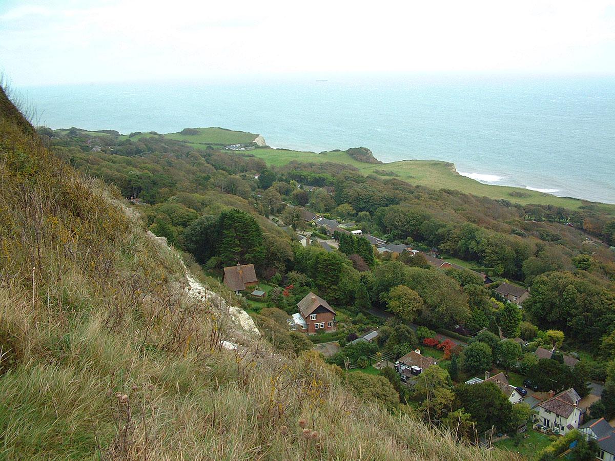 Isle of Wight Undercliff at St. Lawrence, view from Isle of Wight Coastal Path. The Undercliff is a south-facing tract of land, backed by cliffs and formed by landslip processes in Cretaceous rocks, whose sheltered location provides a unusually mild microclimate. It is the location of the Ventnor Botanical Garden, which is on the site of the now-demolished Royal National Hospital for Diseases of the Chest, a tuberculosis sanatorium that was established there to exploit the same mild climate.